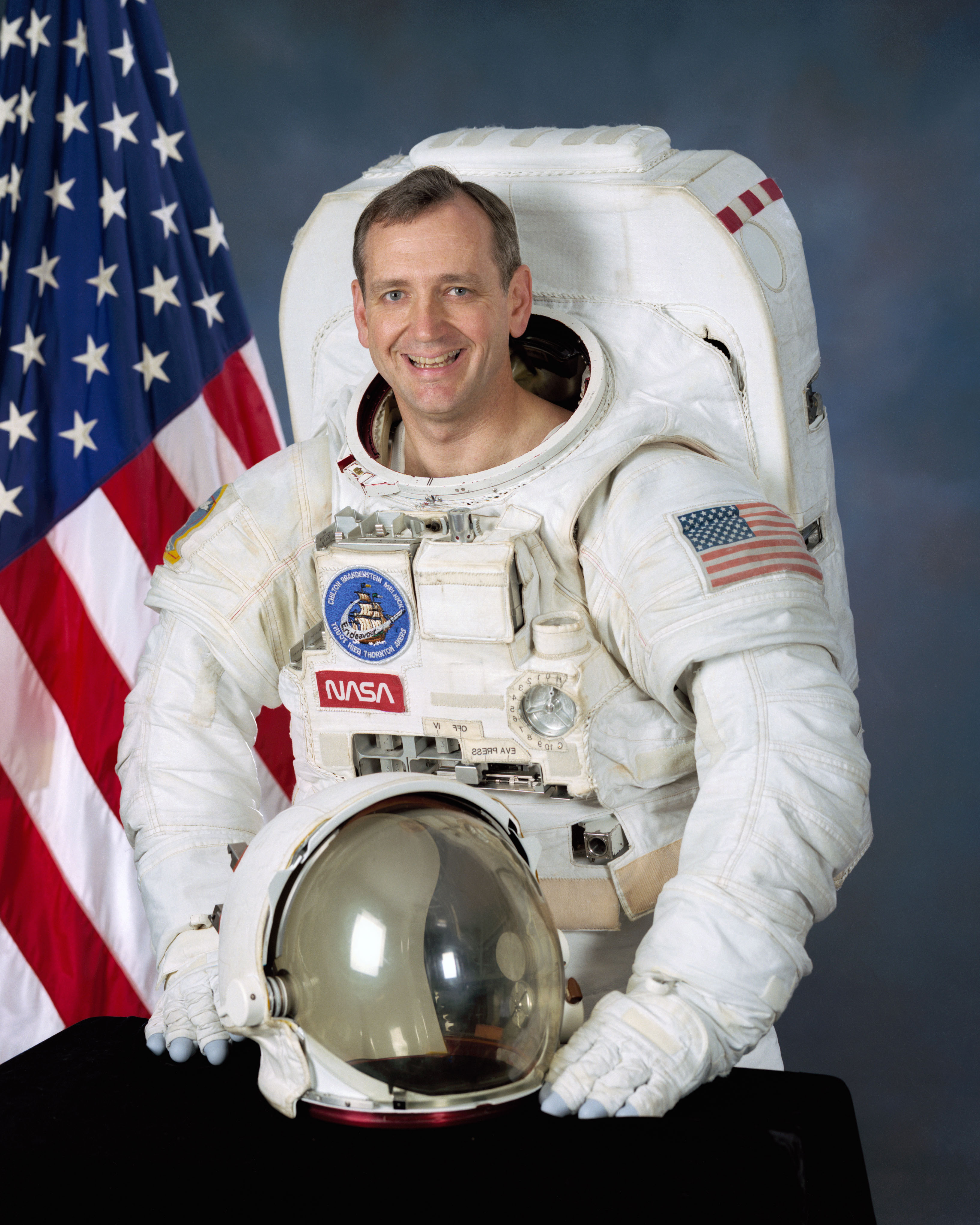 Thomas D. Akers, astronaut, mission specialist